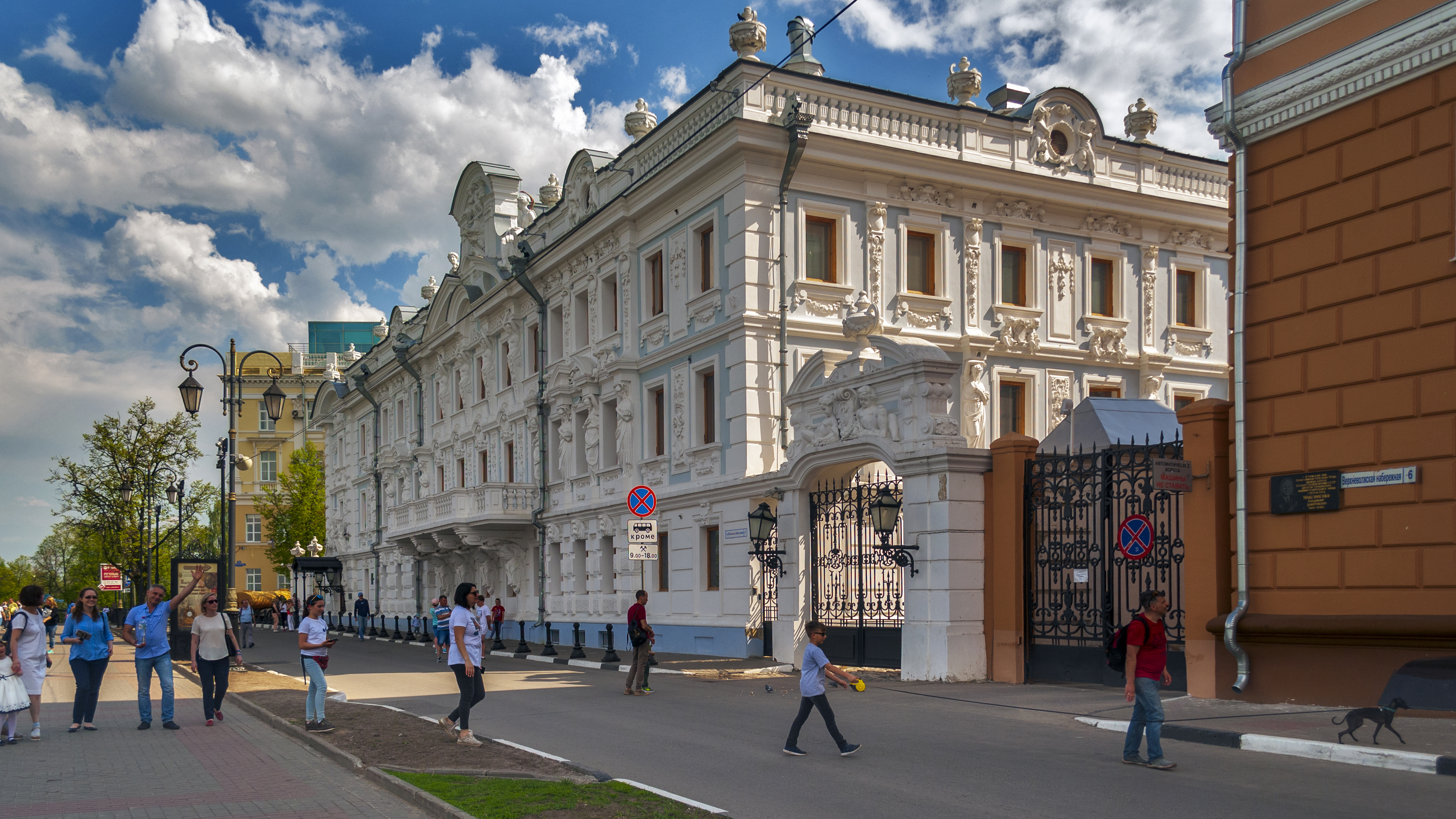 Mansion of Rukavishnikov in Nizhny Novgorod